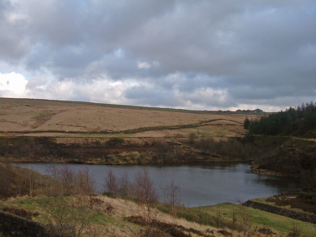 Brushes Clough Reservoir is small catchment reservoir on Crompton Moor above the town of Shaw and Crompton, in Greater Manchester, England.